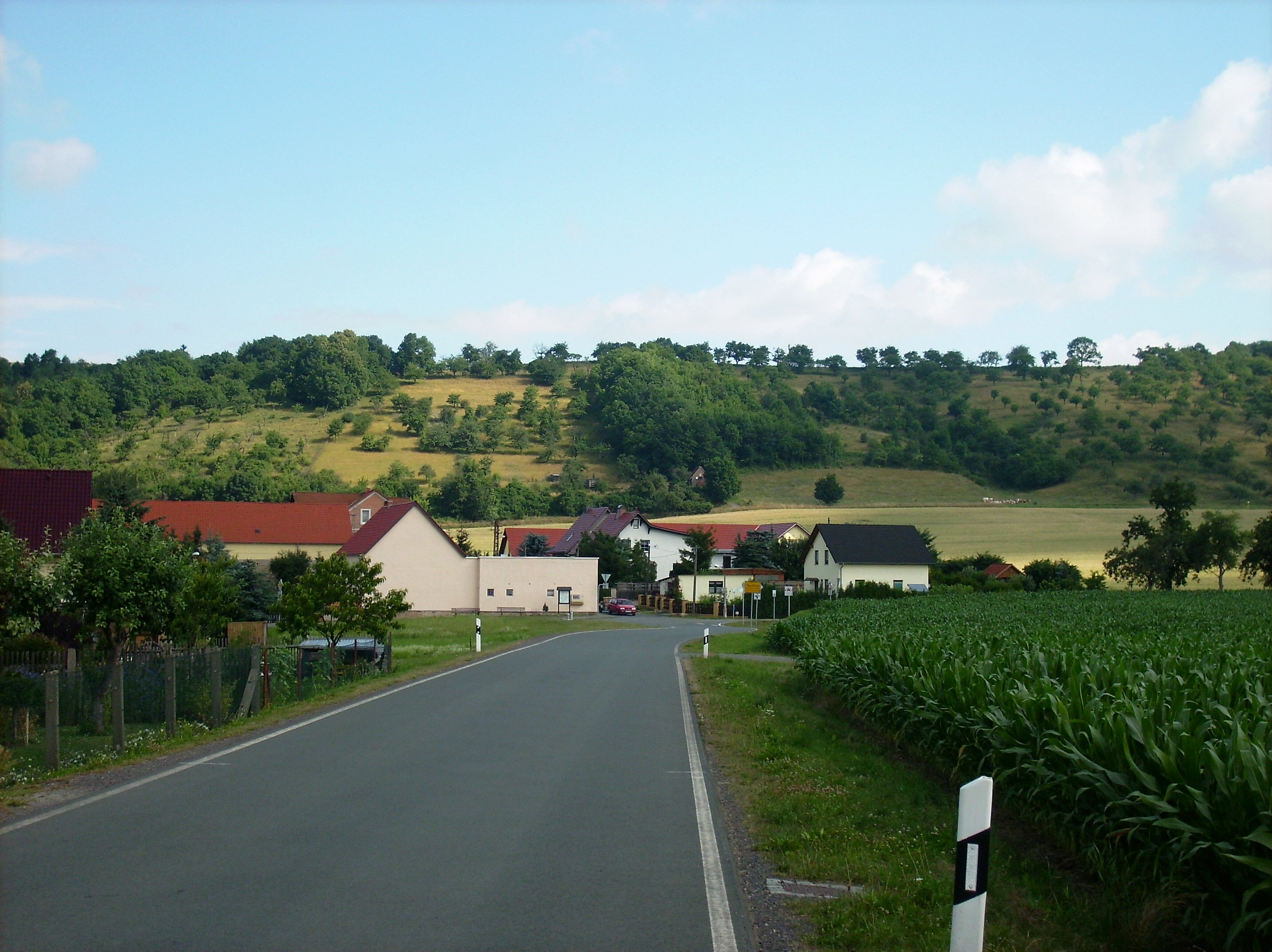 Tauchlitz (Crossen an der Elster, district of Saale-Holzland-Kreis, Thuringia) from the south